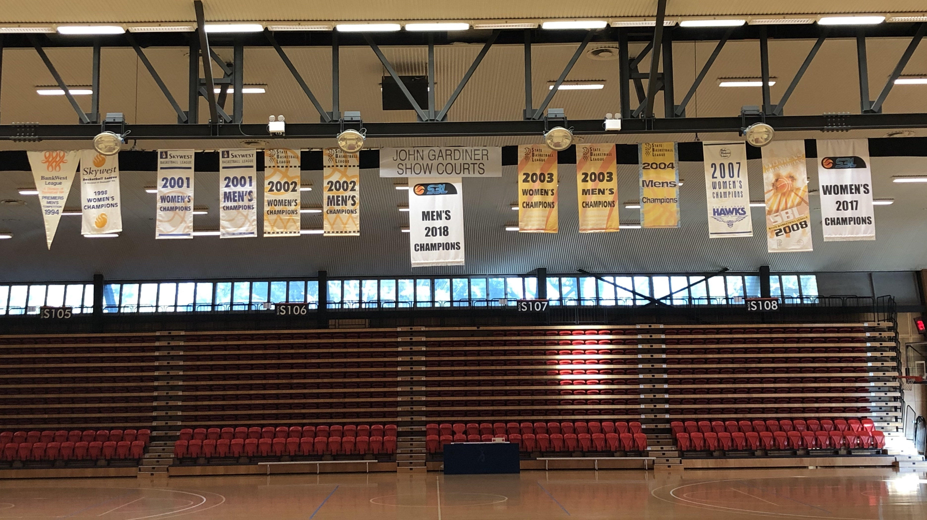 Perry Lakes Hawks’ 13 SBL championship banners